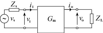 Transkonduktansforsterkarorsterkar